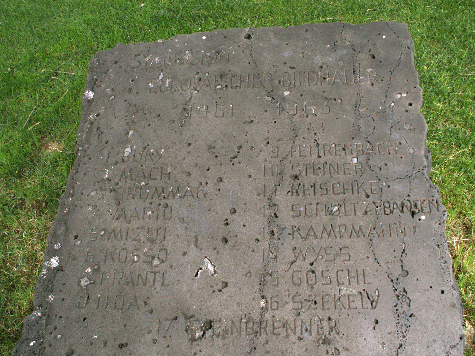 Participants’ names, Germany, Berlin, „Symposion europaeischer Bildhauer“, 1961/63